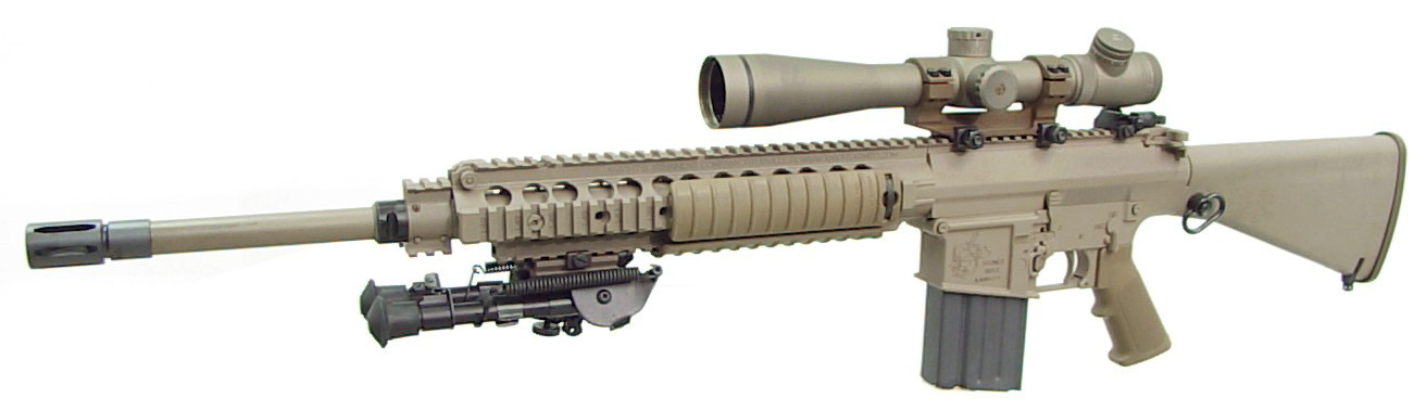 The latest version of the M110 Semi-Automatic Sniper System. Features the new ECP improvements such as a buttstock hand-tightening knob, sling swivel sockets, a double sided bolt catch, and a button on the folding front sight to allow it to be locked into position.